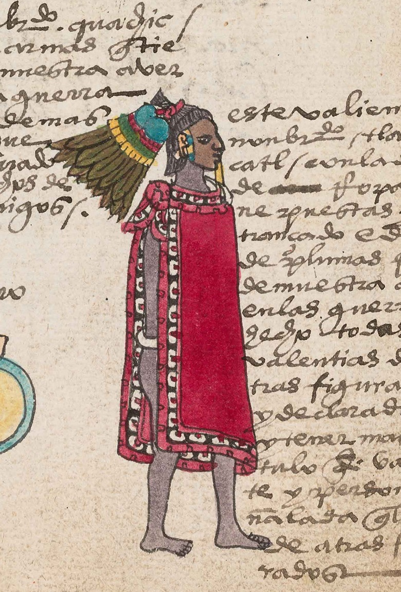 Detail from the Codex Mendoza showing a Tlacatecatl (Aztec general) standing in a red cape and elaborate headdress. The text surrounding the figure is in Spanish. The original document is held in the Selden Collection of the Bodleian Library, Oxford, shelfmark: MS. Arch. Selden. A. 1.